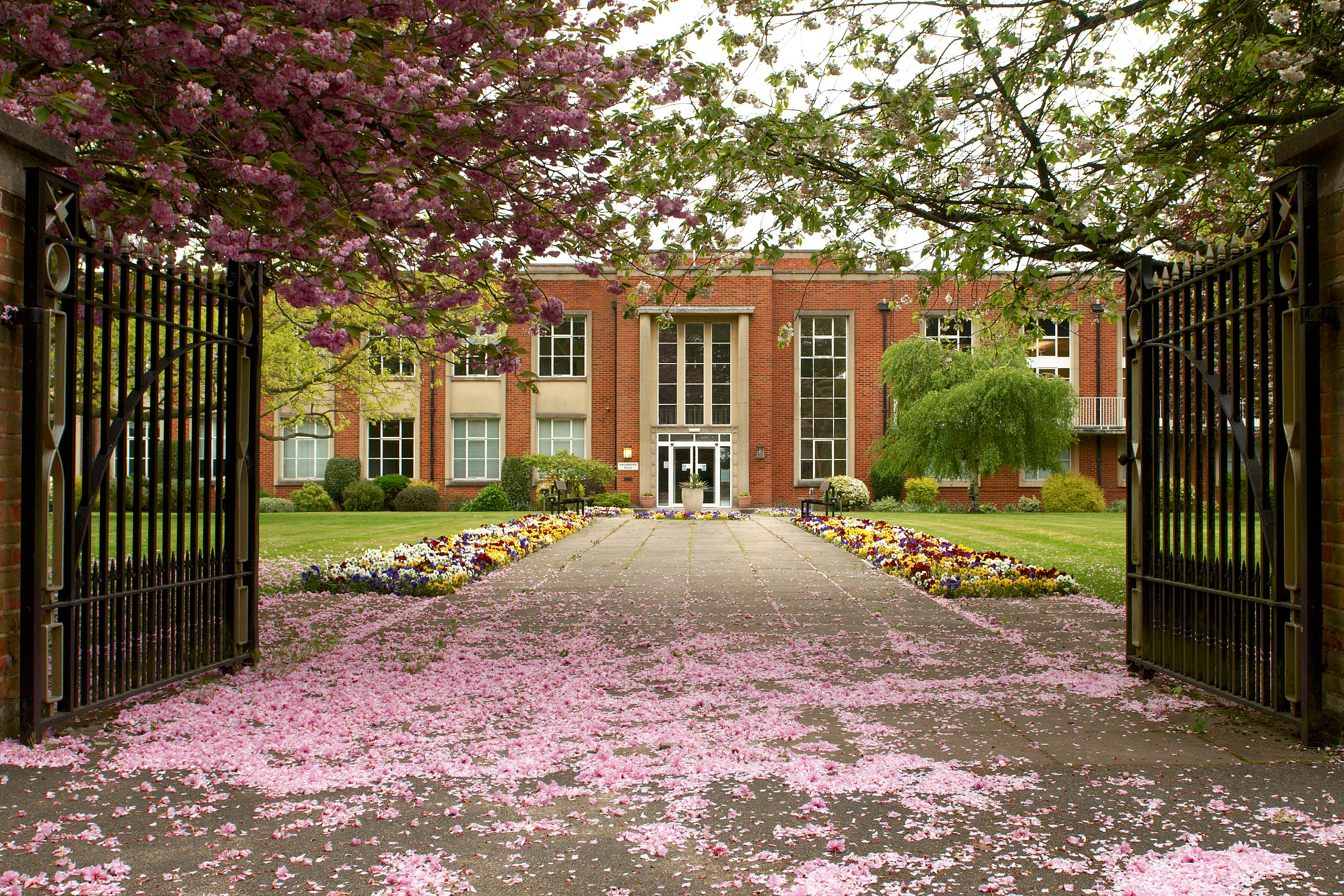 Salisbury Hall, the main administration building at Newbold College, Binfield, Berkshire, England.